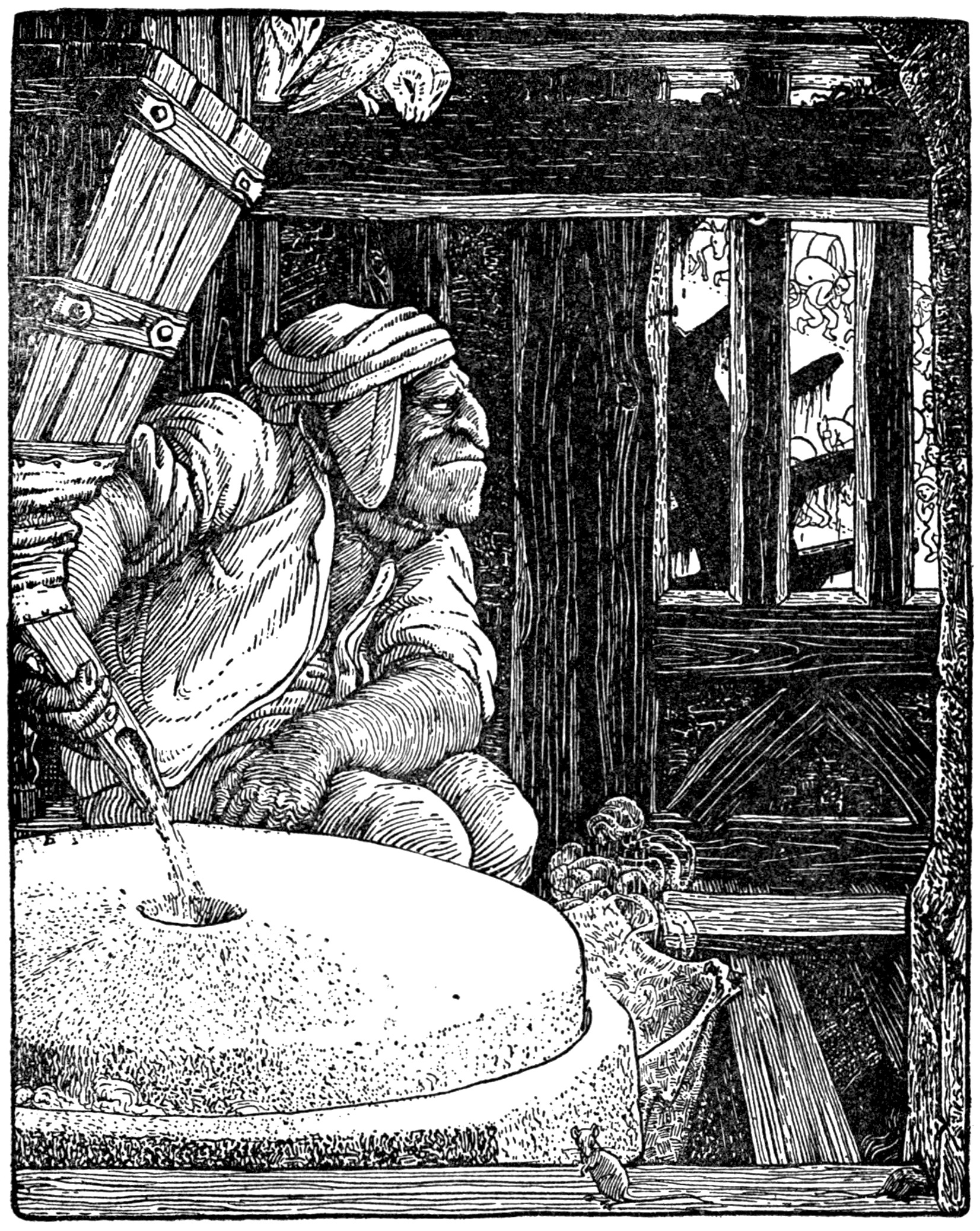 illustration to a book of tales, page 37, the removed caption stated "THE GIANT ANTS"